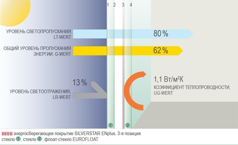 Энергосберегающий стеклопакет